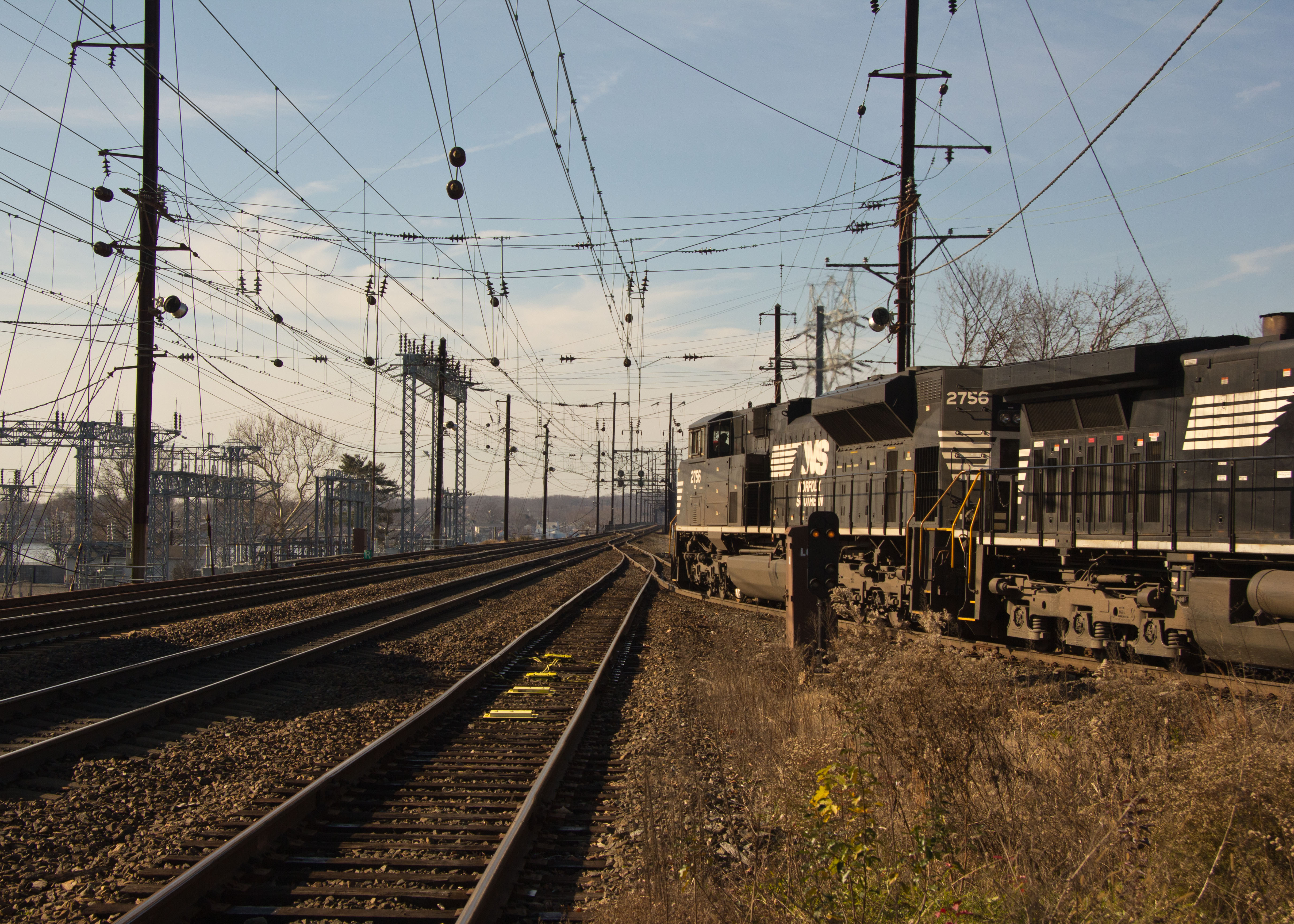 Having received clearance to enter the Northeast Corridor, a loaded NS coal train makes its way through the turnouts leading from the Harrisburg Line to the southbound track on the Northeast Corridor. Almost all freight on the Corridor moves late at night when there are fewer MARC and Amtrak trains.